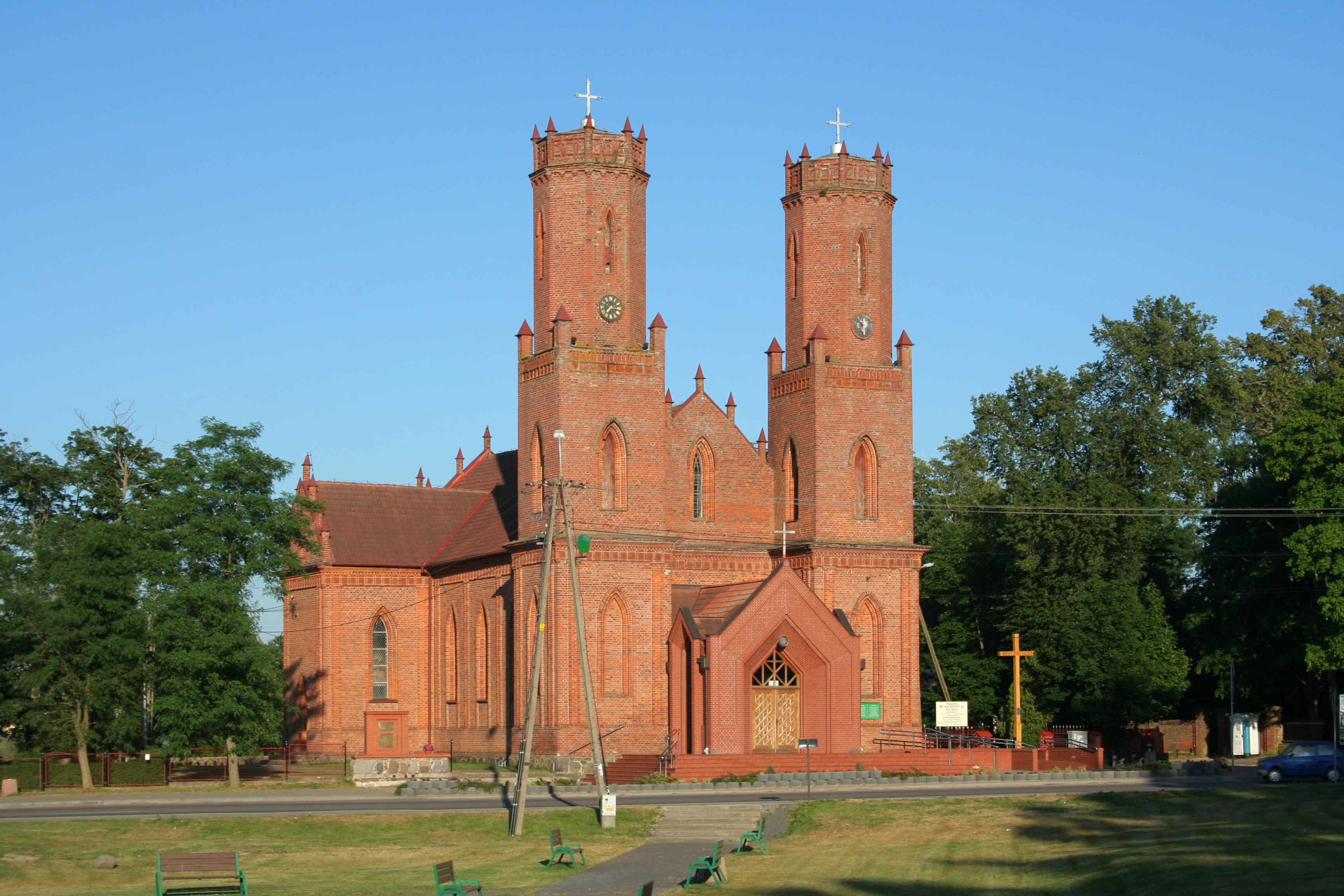 Church in Krokowa.